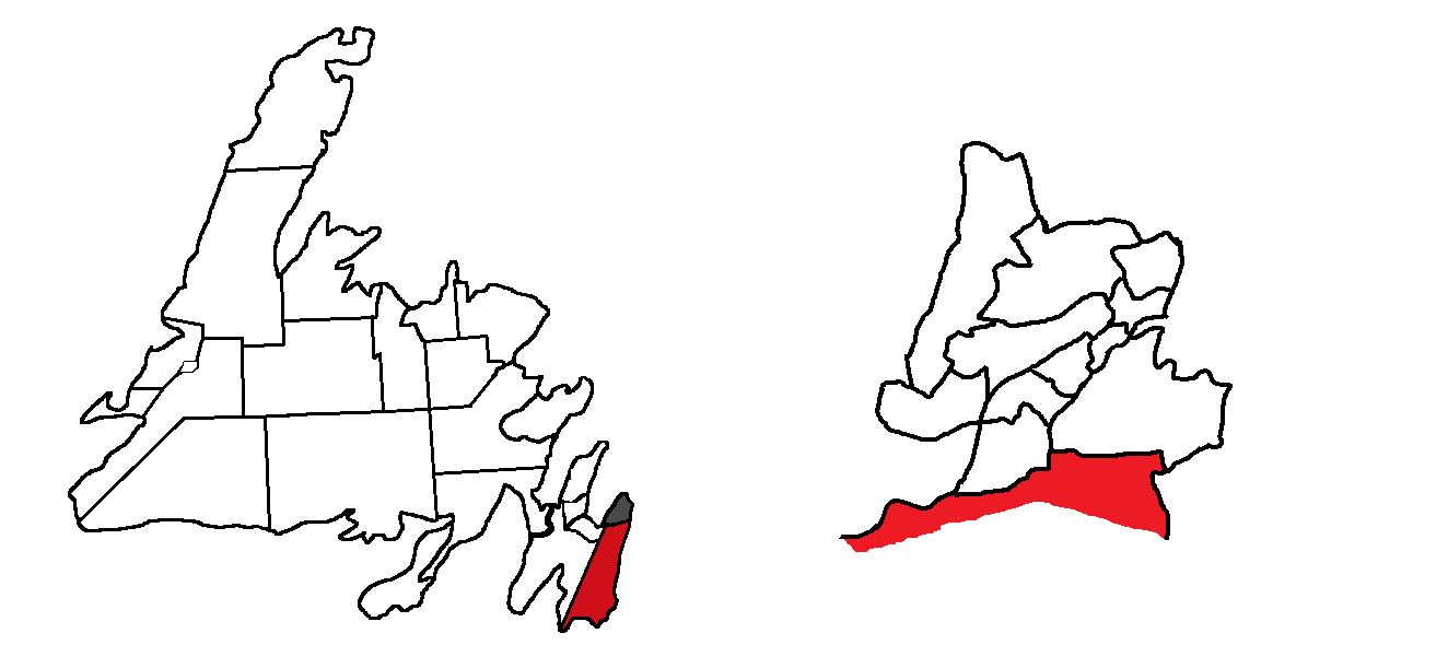 Map based on work by Earl Andrew, from maps used in 2007 election